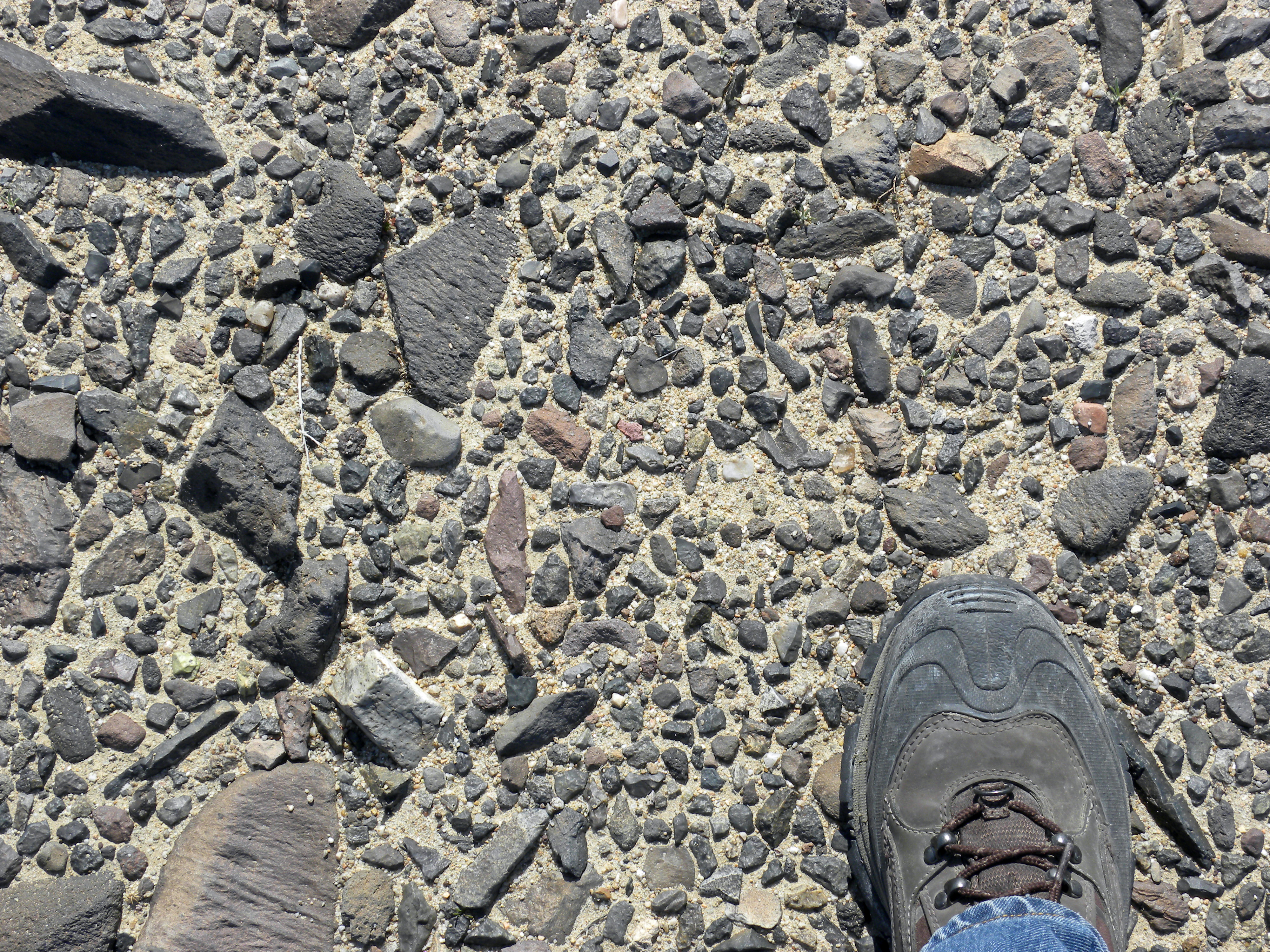 Desert pavement near Harvard Road east of Barstow, California (Mojave Desert).